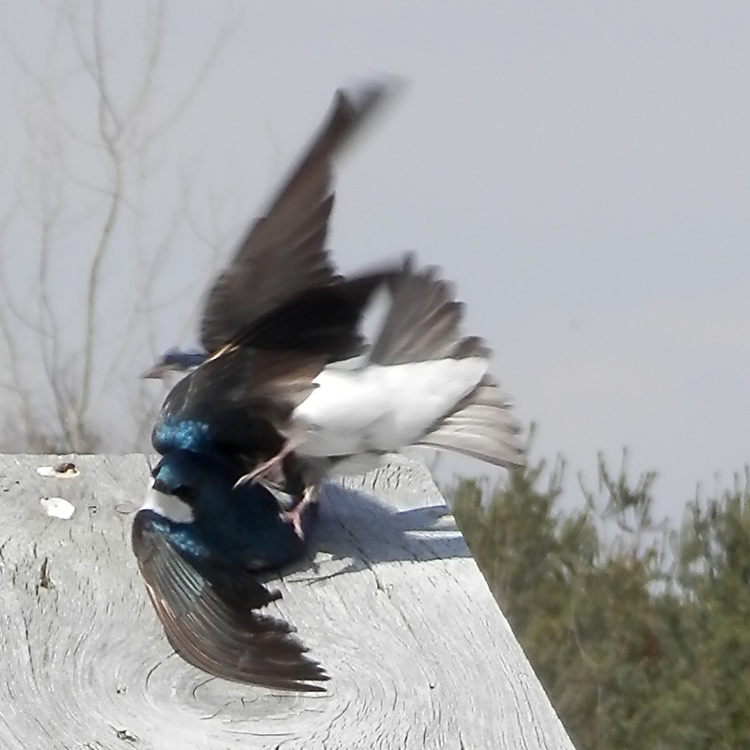 Tree Swallows (Tachycineta bicolor) fighting on a nest box at Bird Studies Canada in Norfolk County, Ontario, Canada.